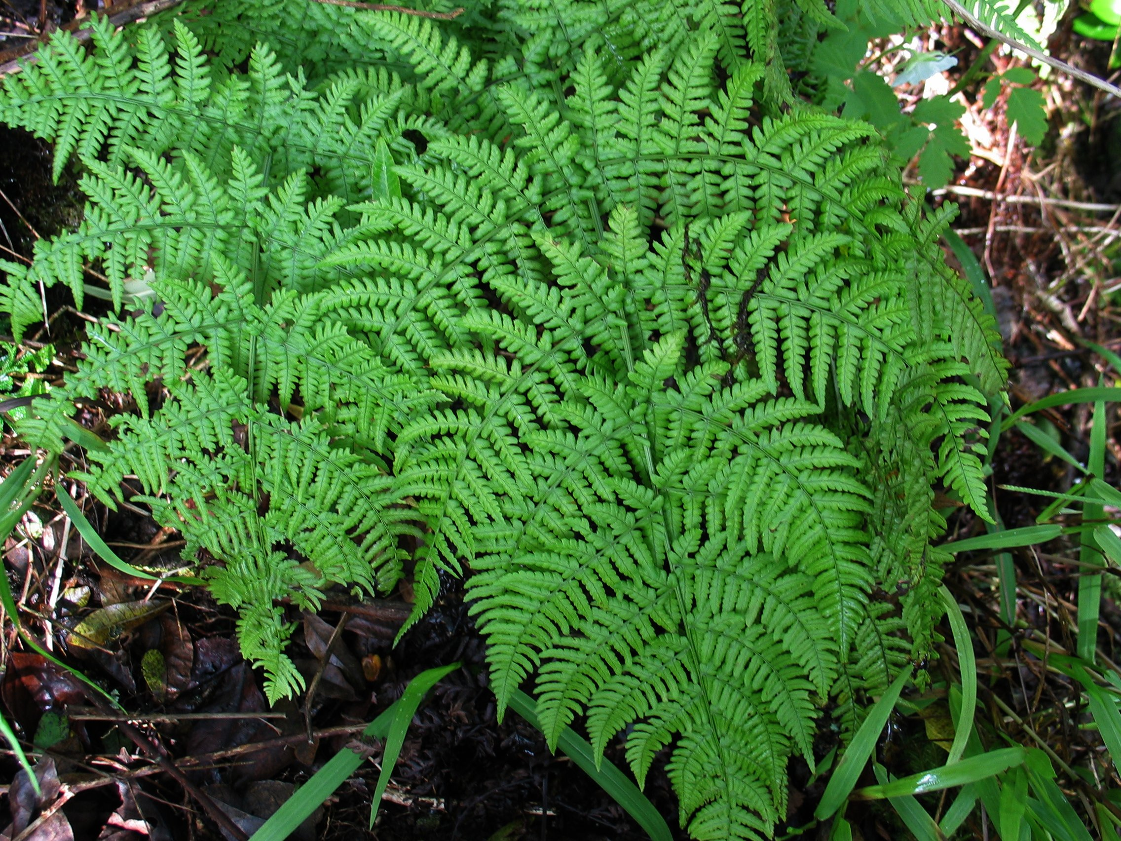 ʻĀkōlea Endemic to the Hawaiian Islands Puʻu Kaua*, Oʻahu In Hawaiian kaua means "war," but kauā means "servant."